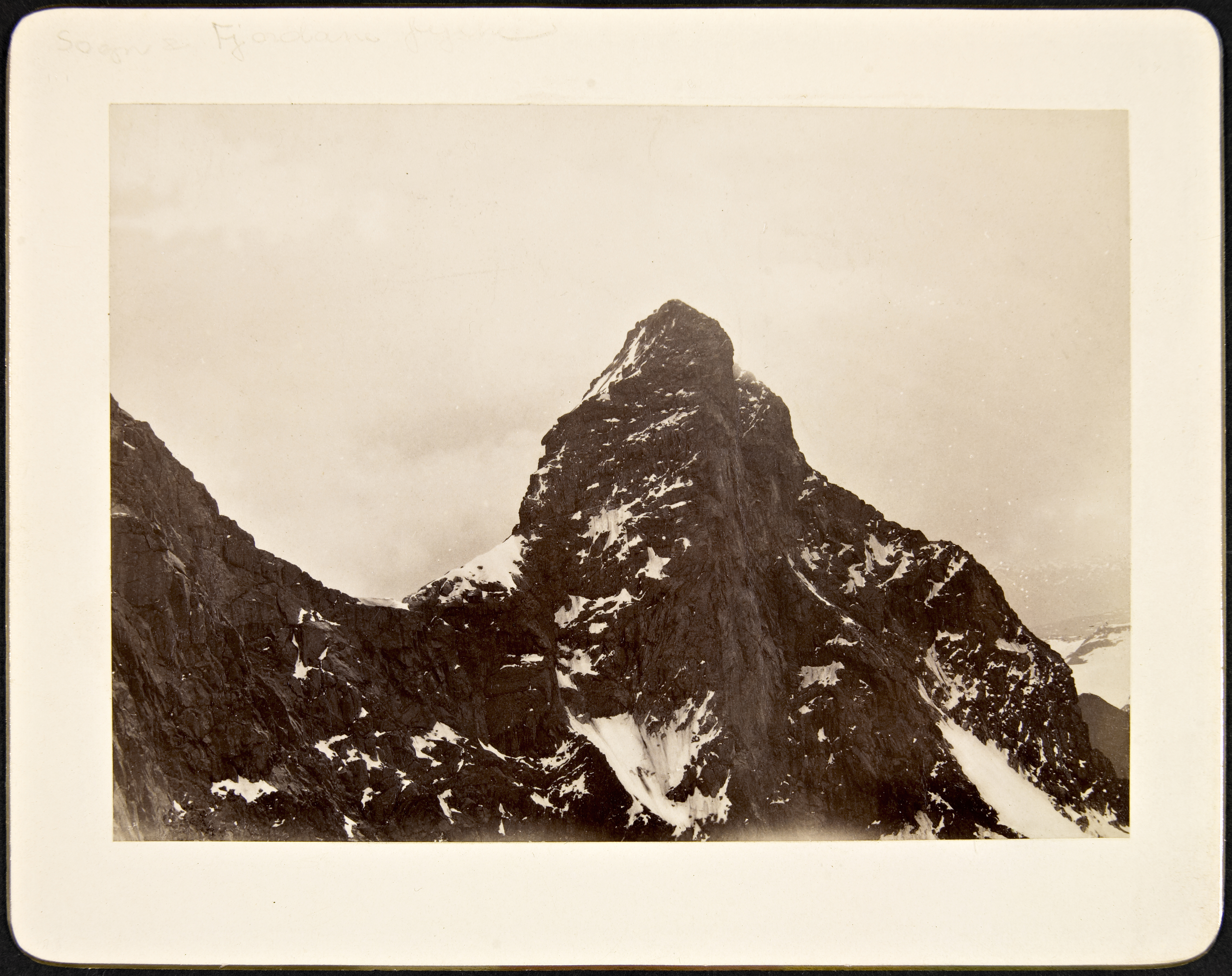 Beskrivelse / Description: Store Skagastølstind sett fra toppen av Midtre Skagastølstind Tekst på baksiden av bildet: "St. Skagastølstind (7650') sét fra Toppen af Mellemste Skagastølstind (7350'). Tilvenstre "Mohns Skar" (c. 7100') mellem Store og Vesle Skagastølstind, fra hvilket St. Skagastølstind første Gang besteges af Slingsby den 21. Juli 1876". Dato / Date: 1885 Sted / Place: Sogn og Fjordane, Luster, Skagastølstindane, Store Skagastølstind Fotograf / Photographer: carl&m_saml=&kjonn=&stikkord=&year_from=&year_to=&stedsnavn=&country_code=&fylke_code=&startid=0 Carl Christian Hall (1848-1908) Digital kopi av original / Digital copy of original: s/h papirpositiv, albumin Eier / Owner Institution: Nasjonalbiblioteket / National Library of Norway Lenke / Link: Bildesignatur / Image Number: blds_00767